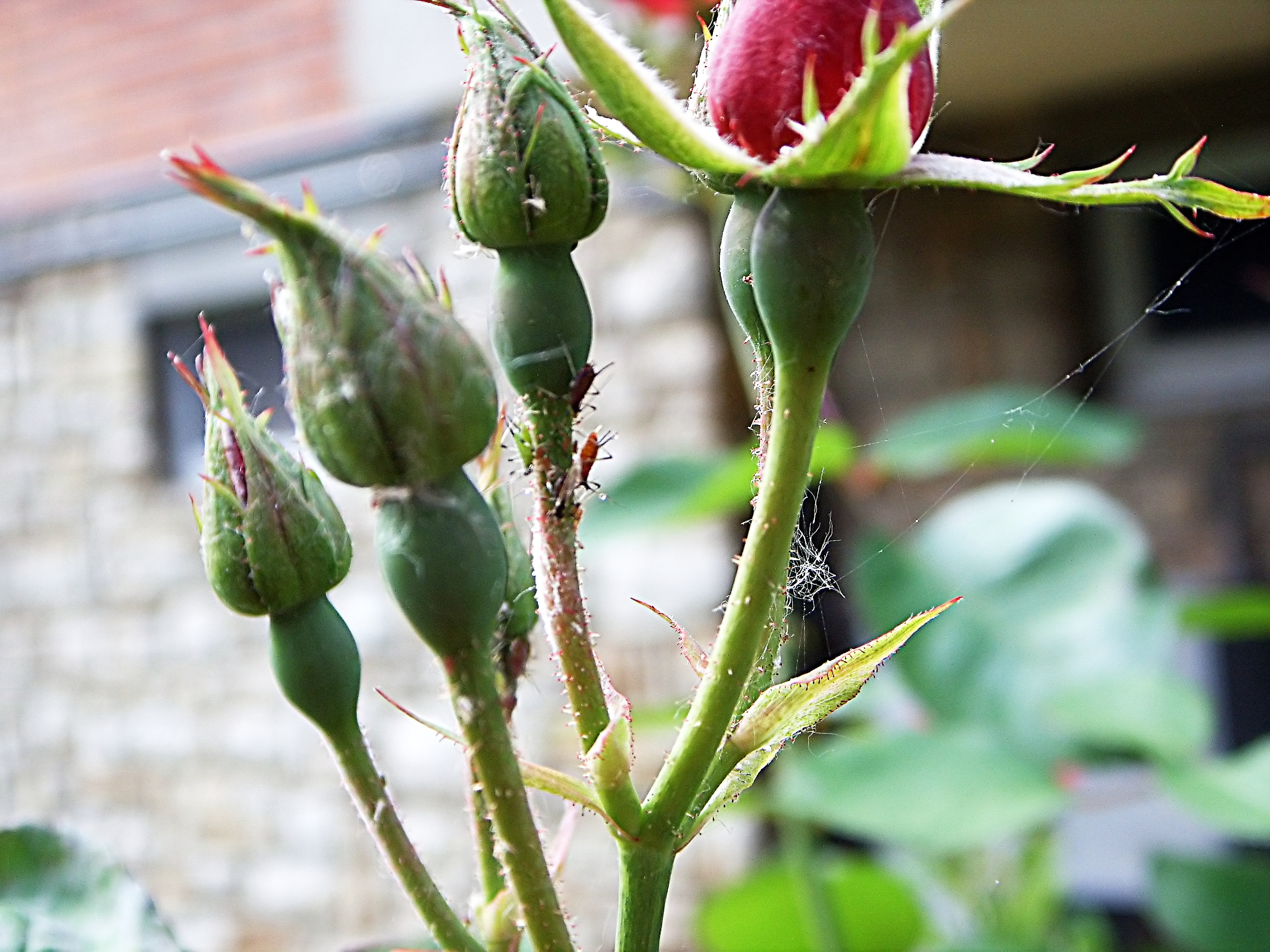 Rosebuds attacked by aphids